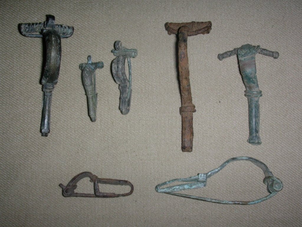 P-shaped Fibulae (Clockwise from top left.) P-shaped Fibula with Tied Foot, Almgren type 162. Germanic. Late 3rd-4th c. CE. P-shaped Fibula with Returned Foot. Germanic. 3rd c. CE. P-shaped Fibula with Tied Foot. Germanic. 3rd-4th c. CE. P-shaped Fibula with Tied Foot, in iron. Germanic. Late 3rd - Early 5th c. CE. P-shaped Fibula with Tied Foot. Germanic. 4th - Early 5th c. CE. P-shaped Fibula with Tied Foot. Germanic. Late 3rd - Early 5th c. CE. P-shaped Fibula with Tied Foot, in iron. Germanic. 3rd c. CE.